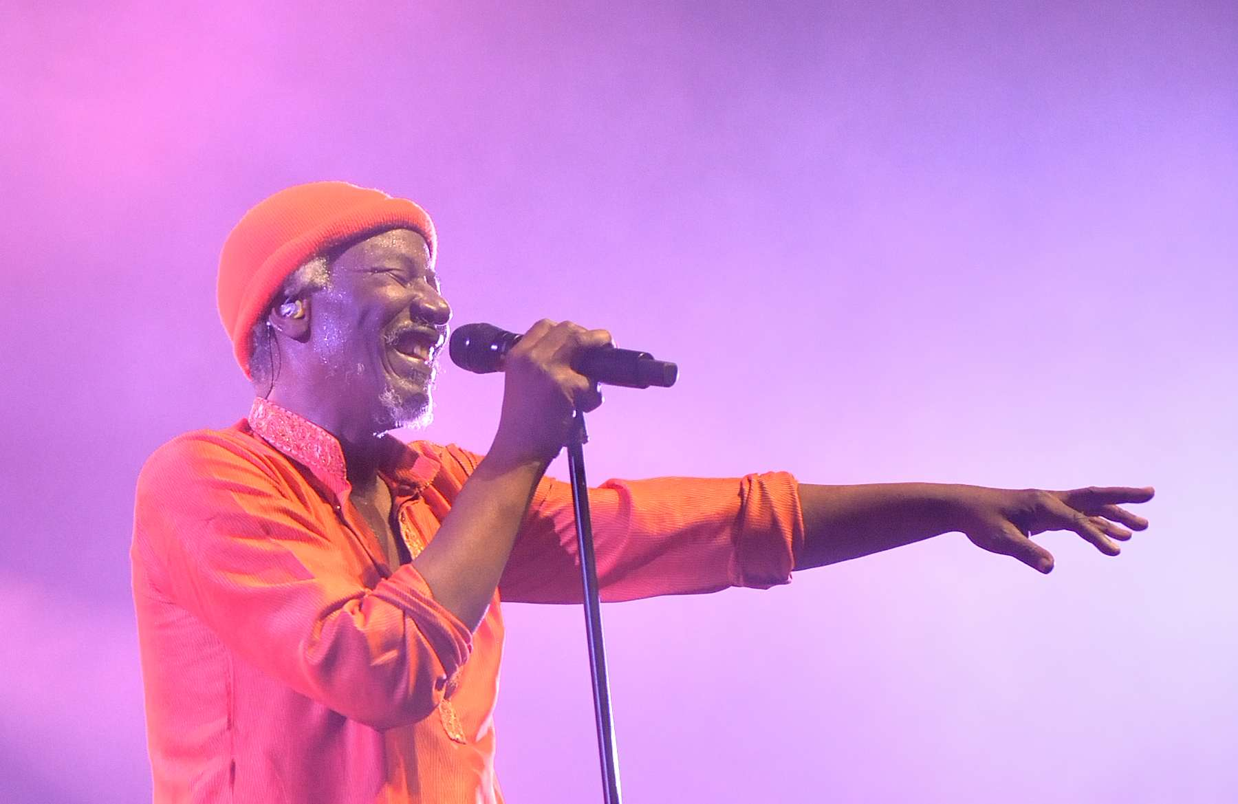 Alpha Blondy Live at 013 Tilburg on may 21 2016